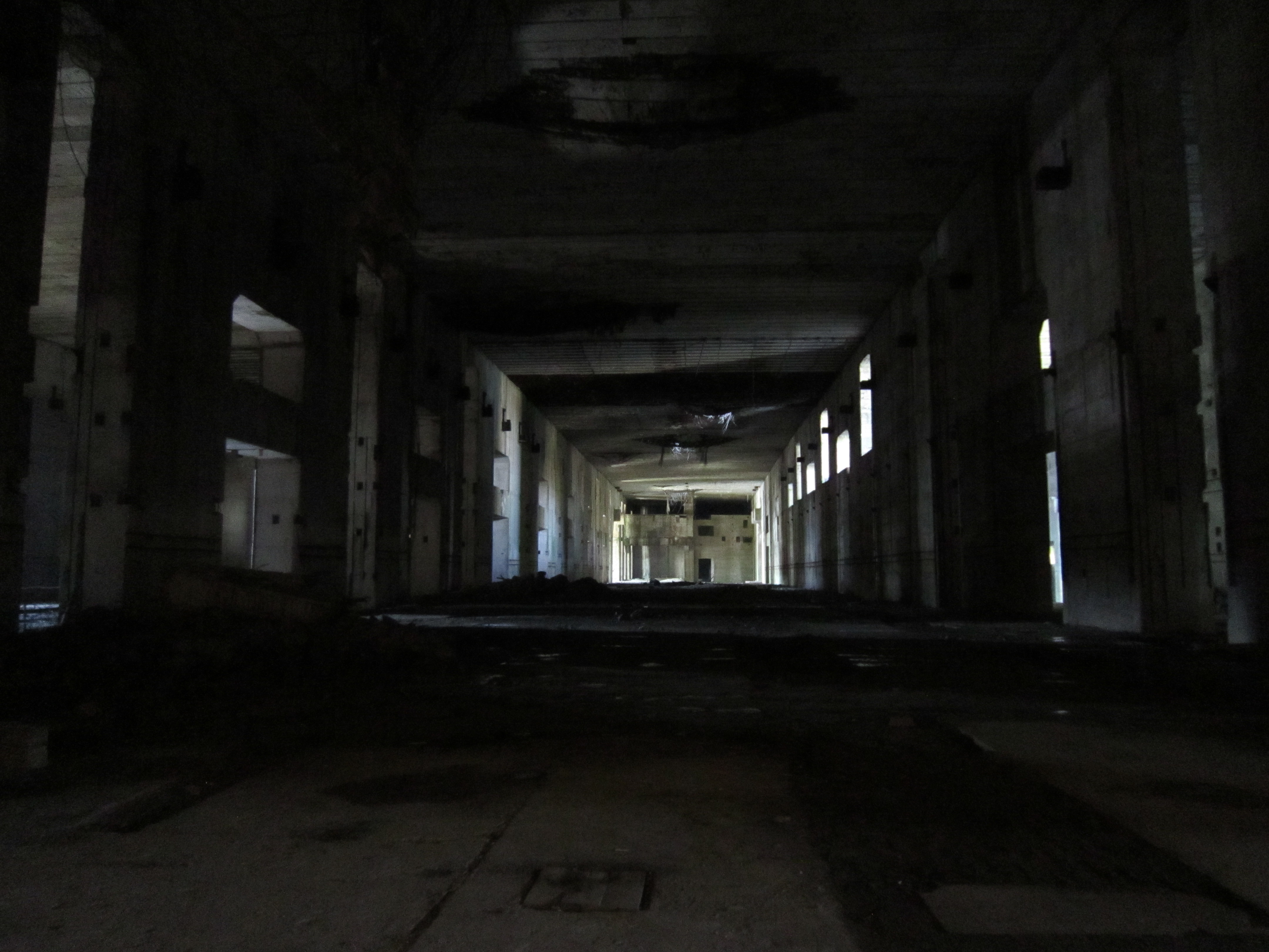 U-Boot-Bunker Valentin in Bremen-Rekum